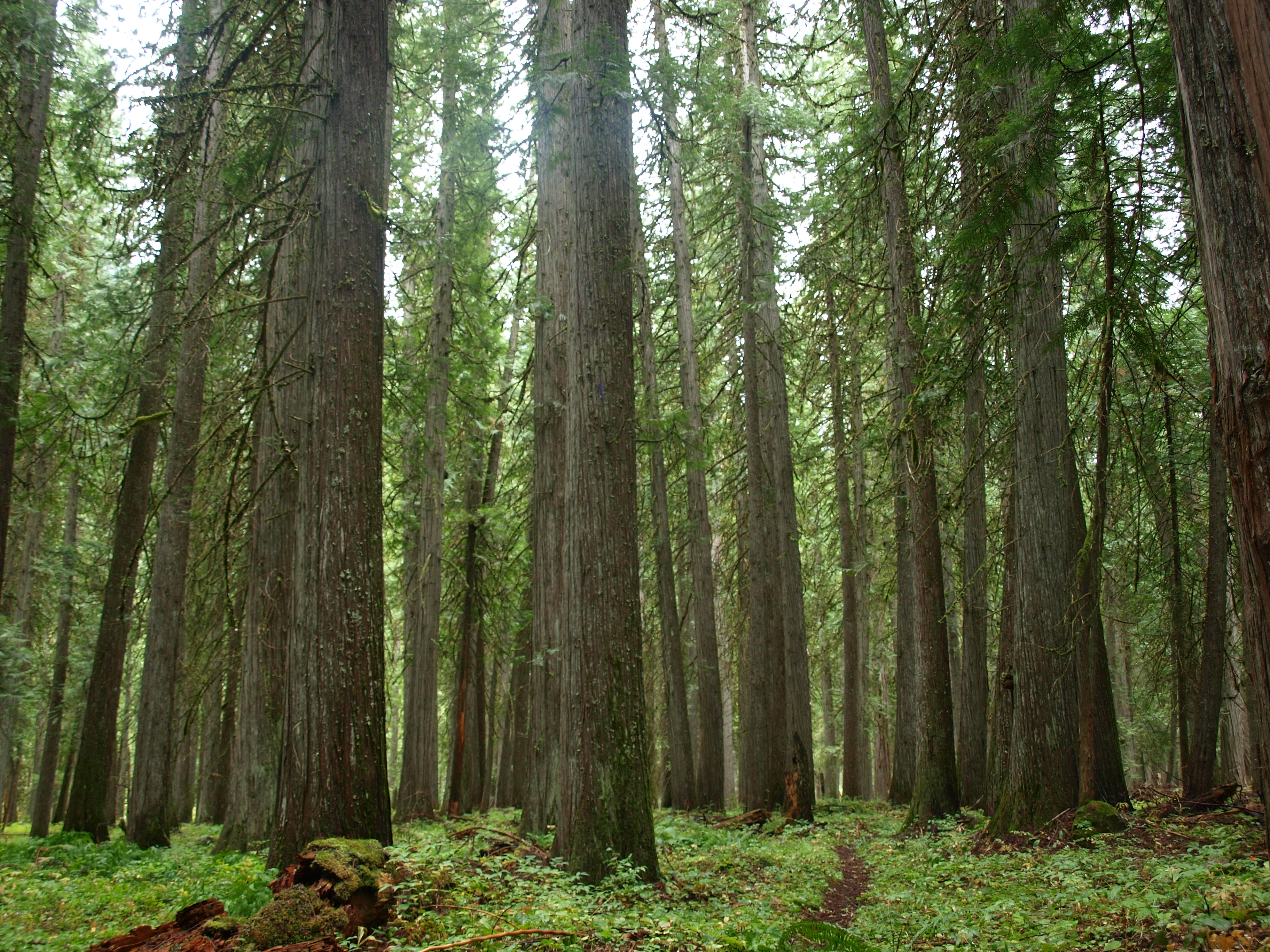 An old growth western redcedar stand.